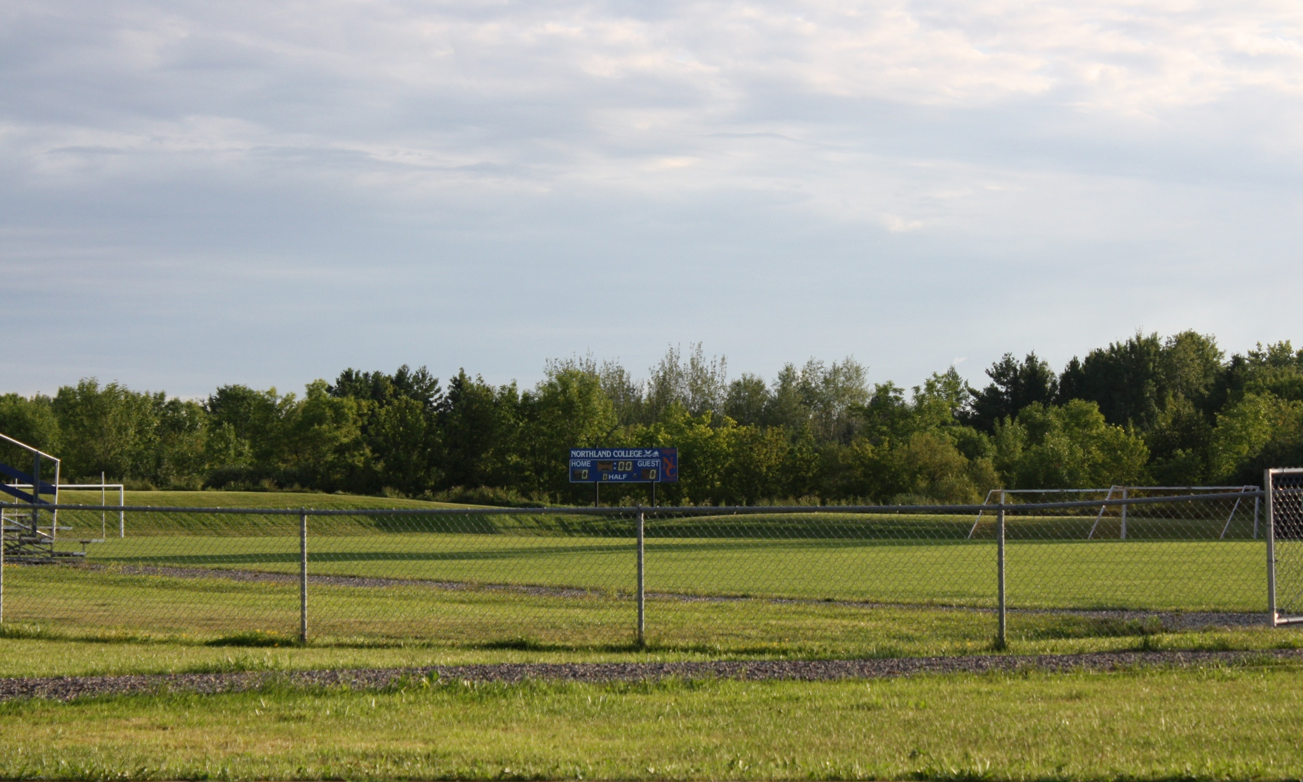 The sports field for Northland College (Wisconsin).